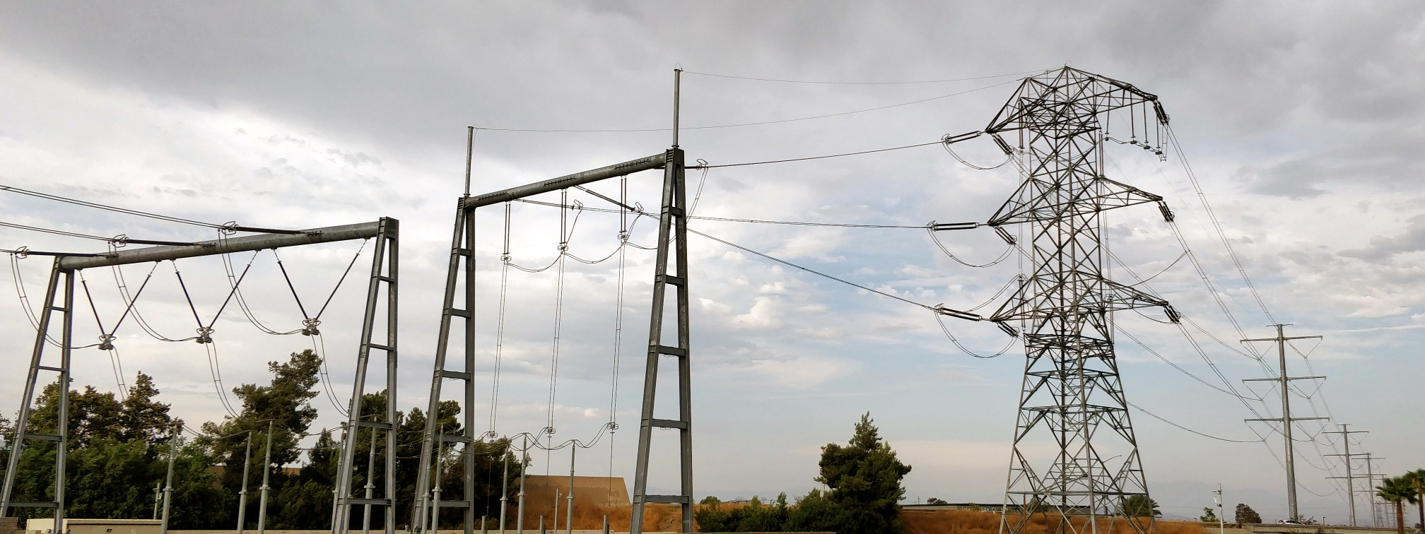 The Tehachapi Renewable Transmission Project 500 kV power line (Southern California Edison). Shown in the photograph is the eastern transition station in Chino Hills, California, where the line transitions from underground to above-ground transmission towers.